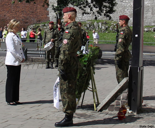 During her visit to Krakow, Secretary Clinton laid a wreath at the Katyn Memorial Cross in Krakow in remembrance of those who were killed in the plane crash on April 10, 2010. The 96 victims onboard the flight to Smolensk, Russia included Polish President Lech Kaczyński and his wife Maria Kaczyńska, high-ranking political and military figures, and families of the victims of the Katyn massacre. The simple wooden cross behind Wawel became a point of mourning for thousands in the aftermath of the April 10 plane crash. The families of the Polish-American artist Wojciech Seweryn, Undersecretary Andrzej Kremer, Brigadier General Włodzimierz Potasiński and Lieutenant General Kwiatkowski were present and Secretary Clinton expressed her condolences to them. The governor of Malopolska, Stanislaw Kracik attended the wreath laying, and an honor guard from the Polish military units based in Krakow which have served in Afghanistan conducted the wreath laying ceremony.